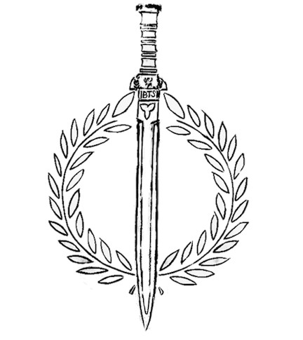 The logo of Myth and Sword